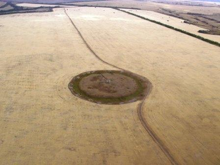 Sanctuary Trehostrovskoe. Natural Park "Don", Volgograd Region.